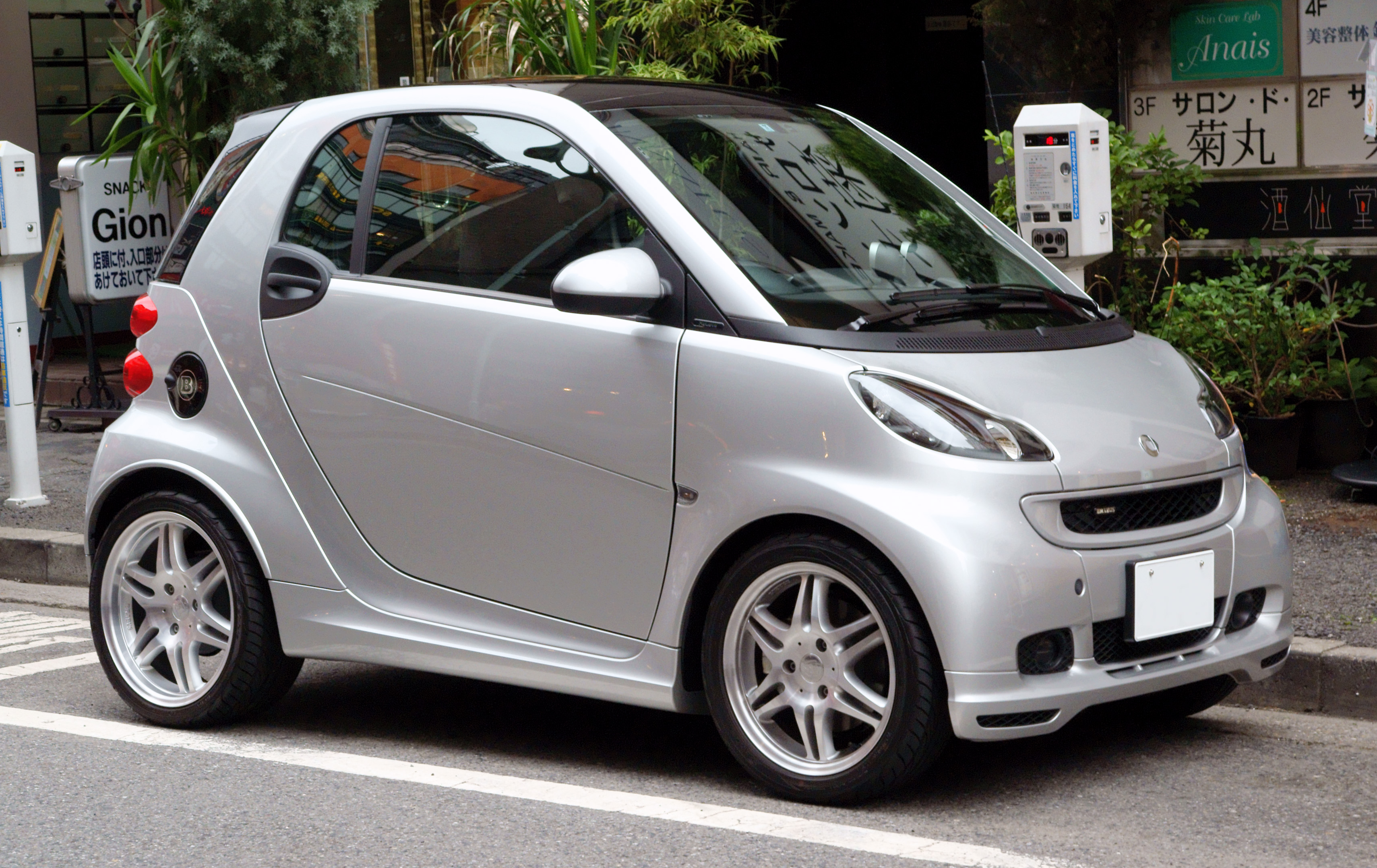 2008 2nd Smart Fortwo Coupe BRABUS Xclusive photographed in Tokyo